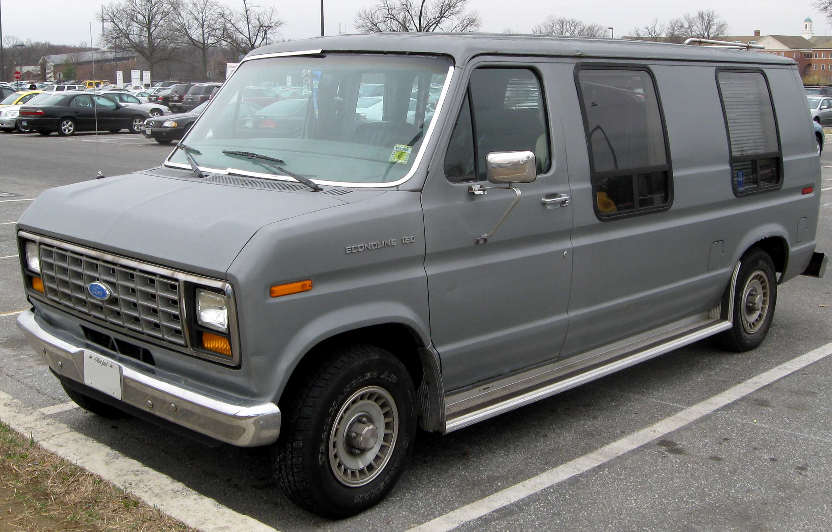 Ford Econoline photographed in College Park, Maryland, USA.